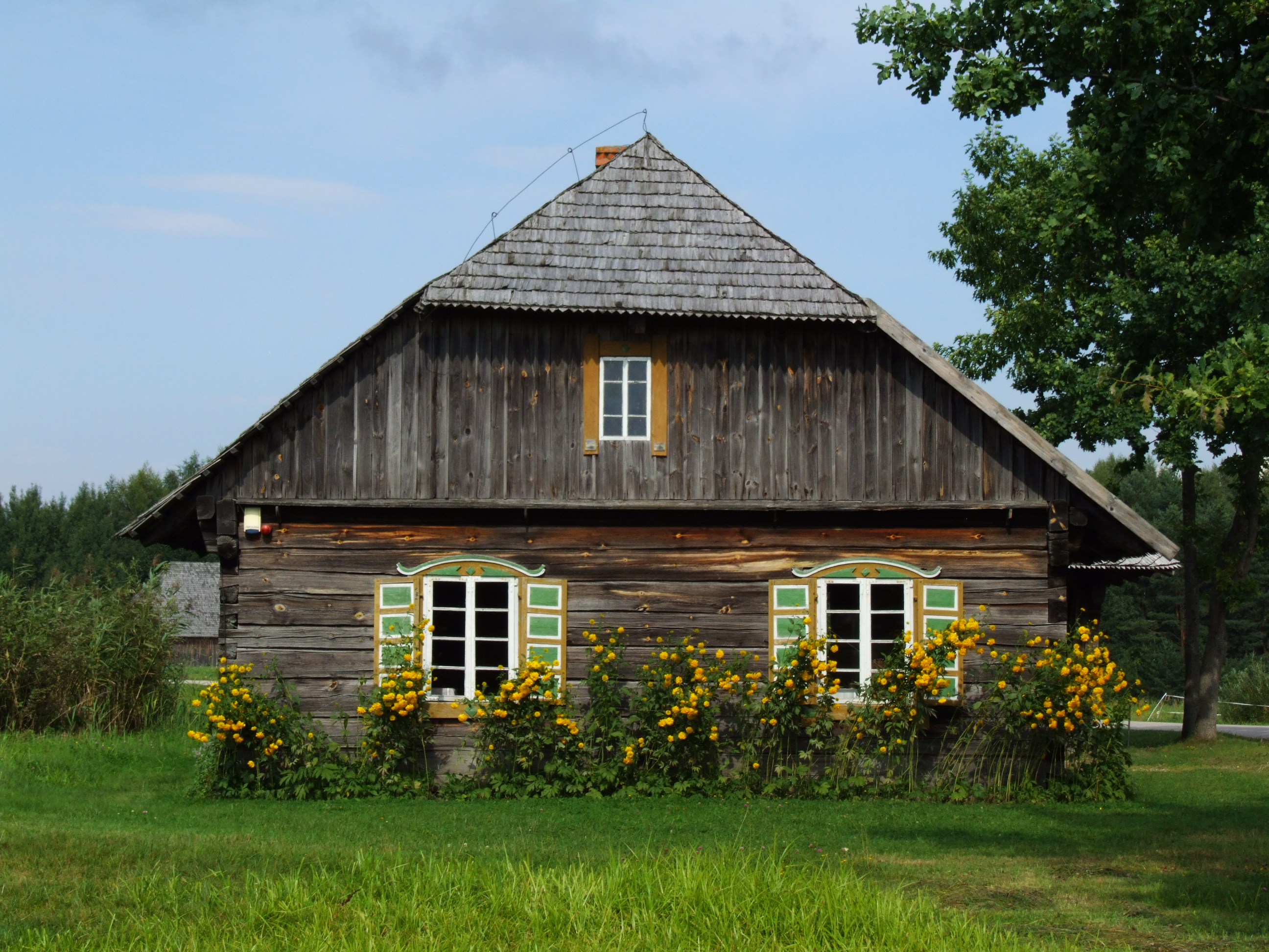 Rumšiškės (Rumszyszki) - Open air ethnographic museum. House from Samogitia